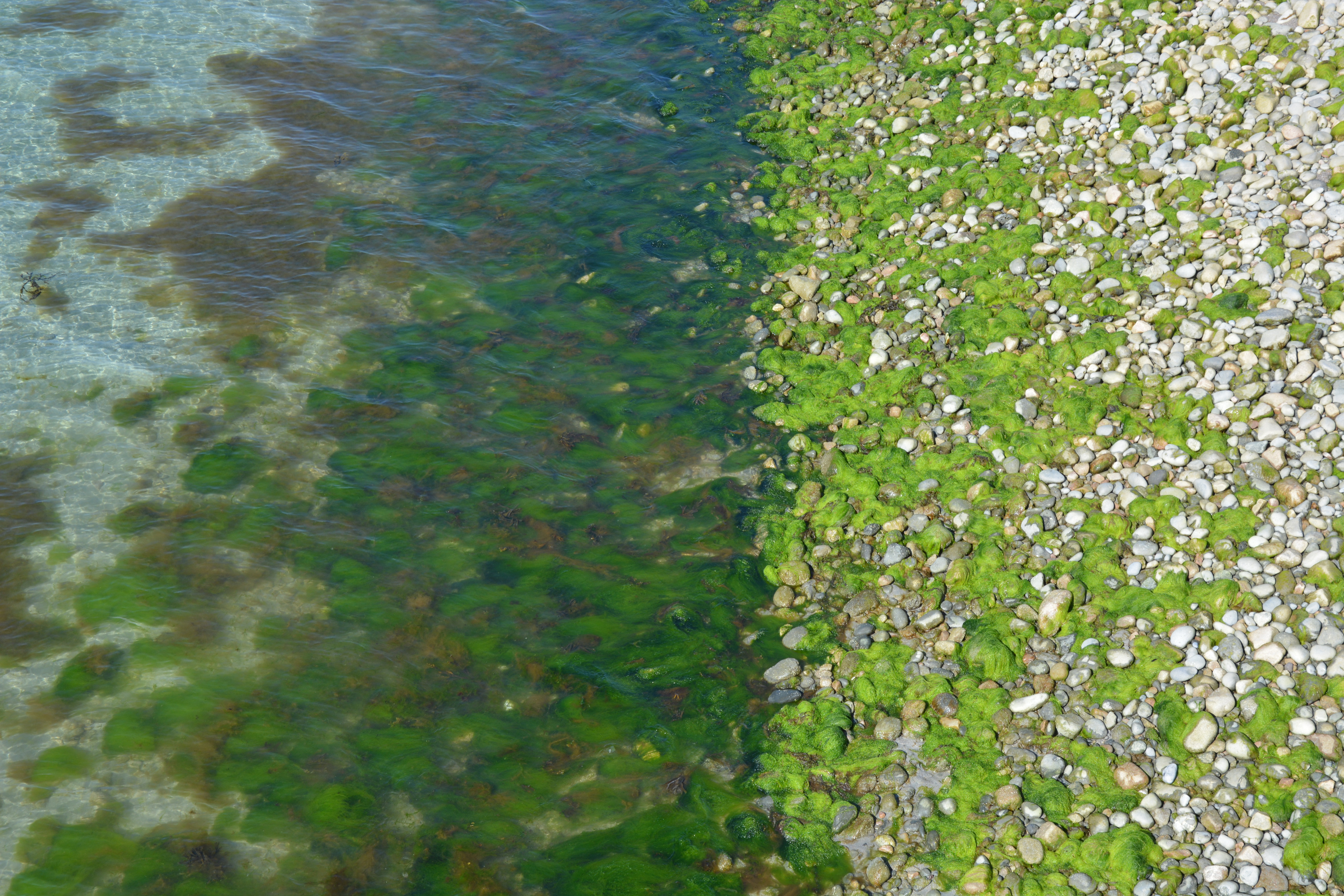 Shore of Galway, green algae bloom (eutrophisation), Ireland